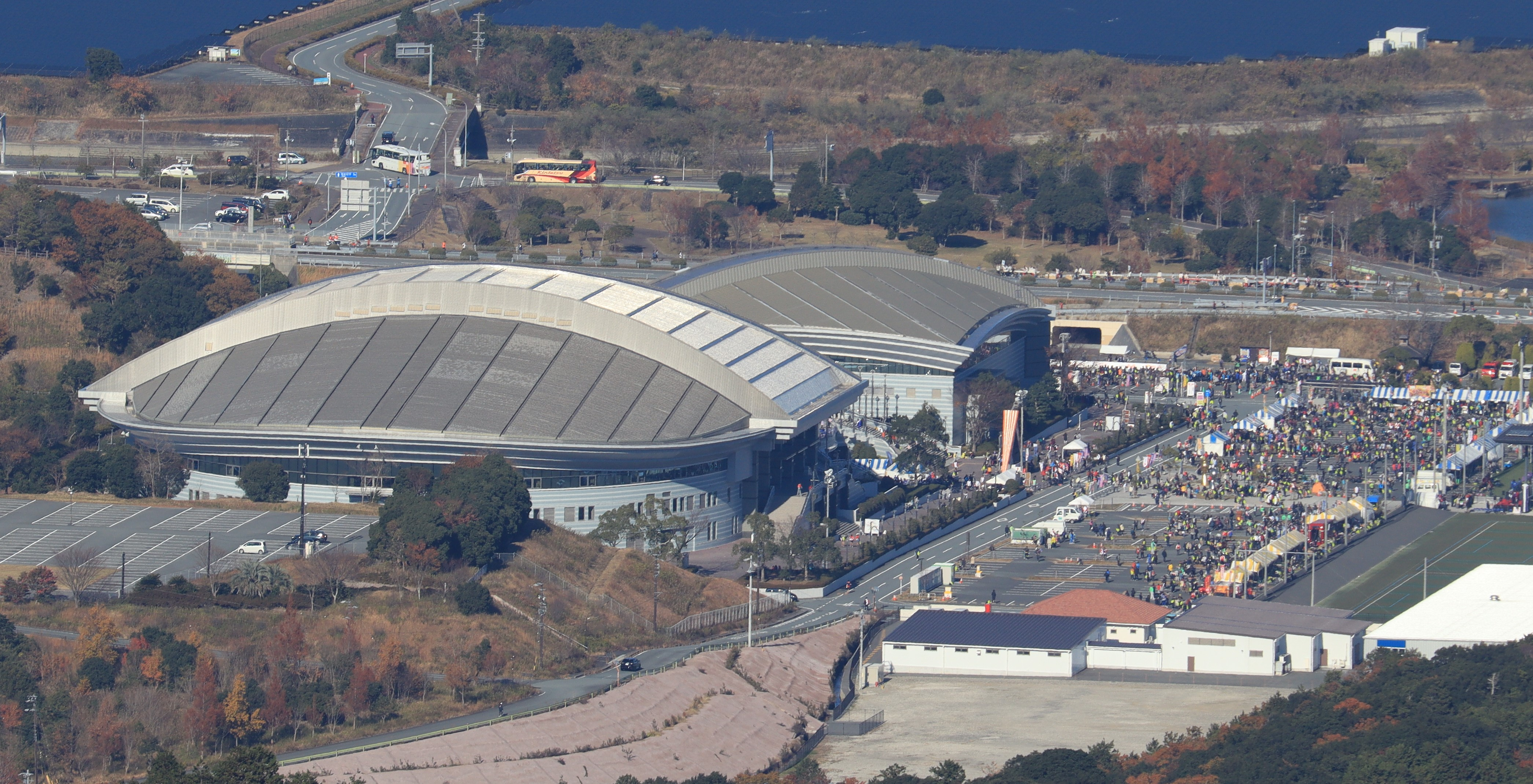 Mie Prefectural Sun Arena seen from Mount Asama in Ise, Mie Prefecture, Japan.